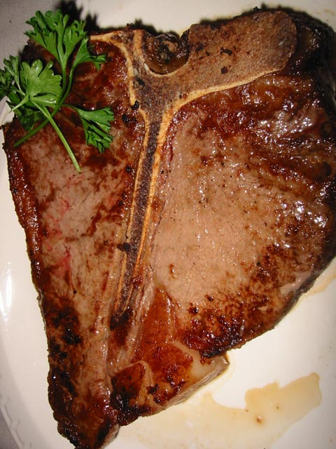 Cooked T-bone steak at Gorat's Steak House, Omaha, Nebraska.